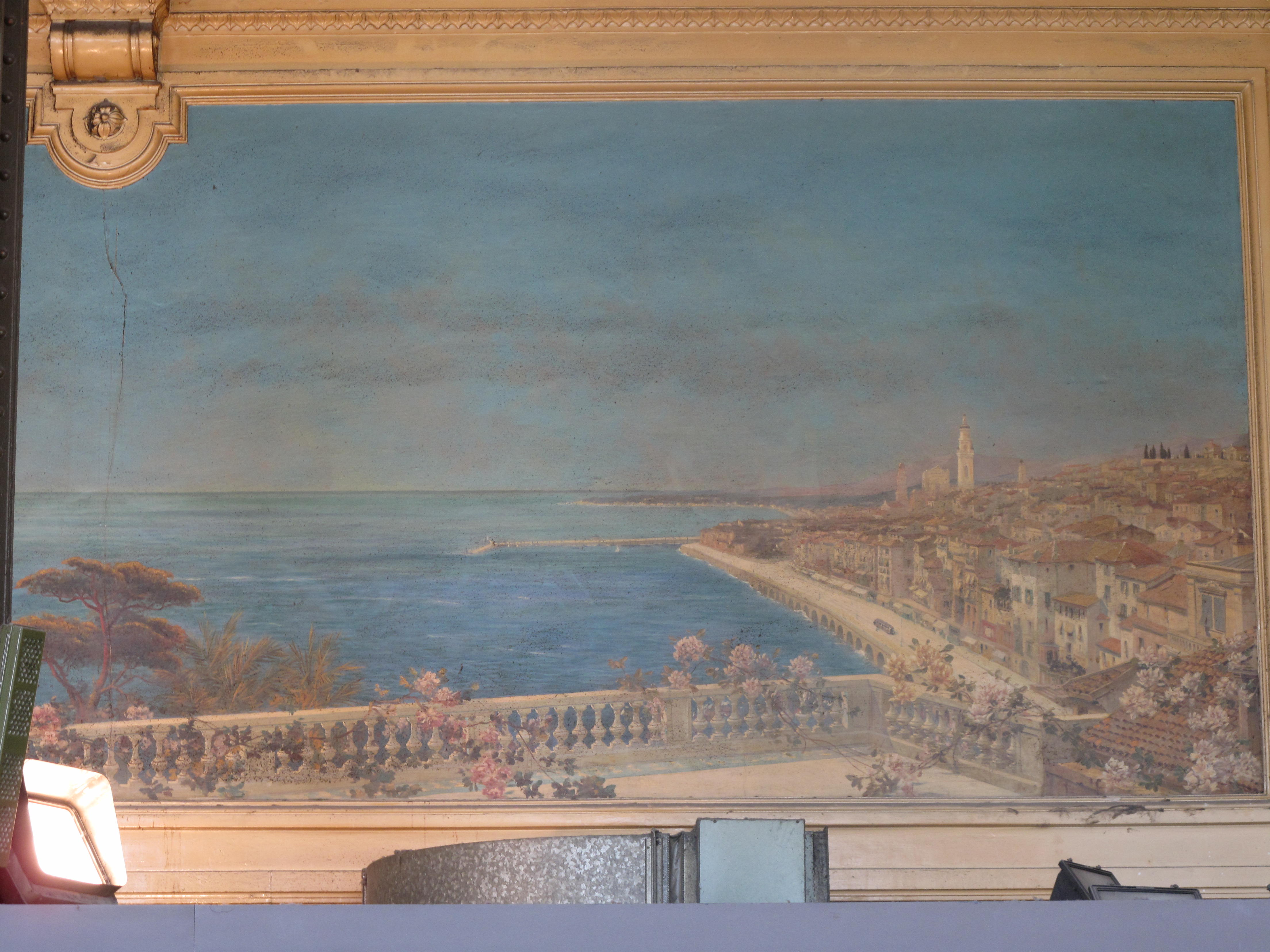 Fresco of the town of Menton, in the station of Paris-gare de Lyon. Several frescos depict the main towns linked by train from this station